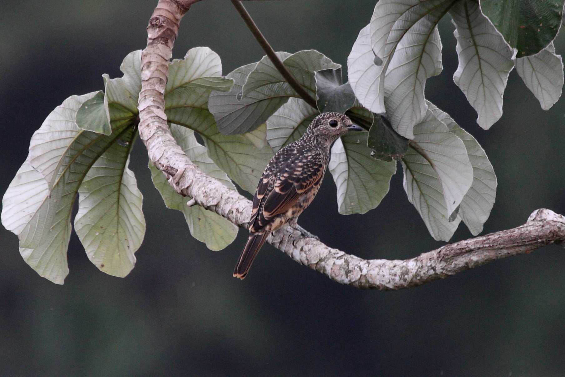 An immature Blue Cotinga in Panama.